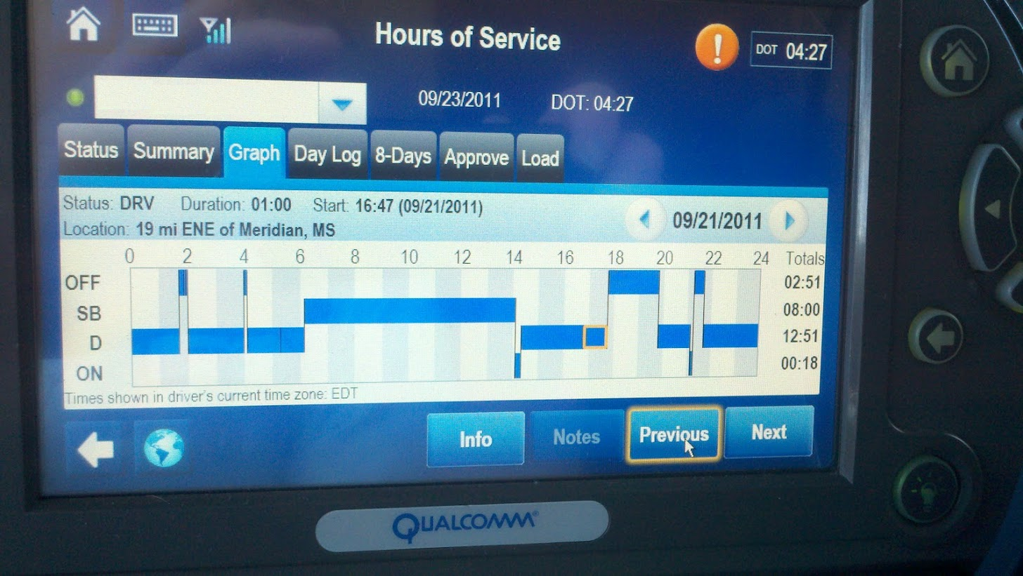 This is an electronic on board recording device, also described as an "EOBR", for monitoring the hours of service (HOS) of a professional drivers daily routine. Installed into a common carriers vehicle for automatically recording the time a driver is moving or at rest. This type of device would normally take the place of a driver recording his own hours of service via a paper log book. It can also be referred to as "paperless logs".